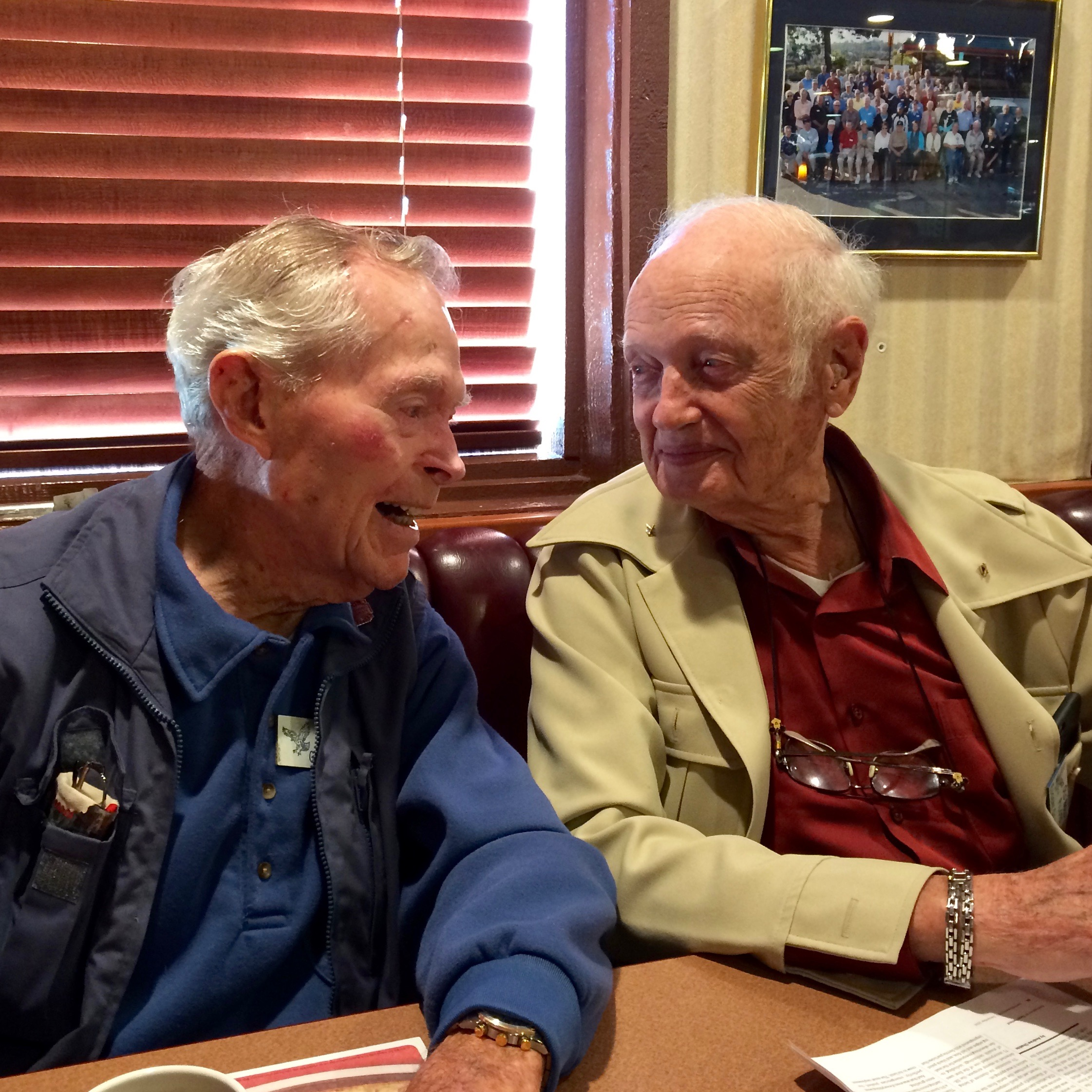 Old Bold Pilots Association members Gale Graves and Gene Deatrick enjoy breakfast at Denny's in Oceanside, California on December 24, 2014